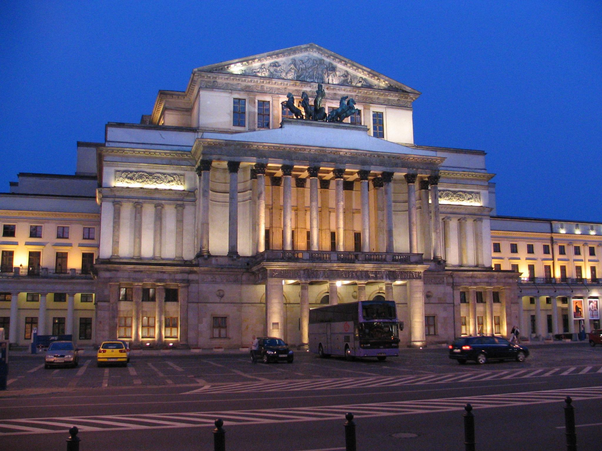 Warsaw National Theater